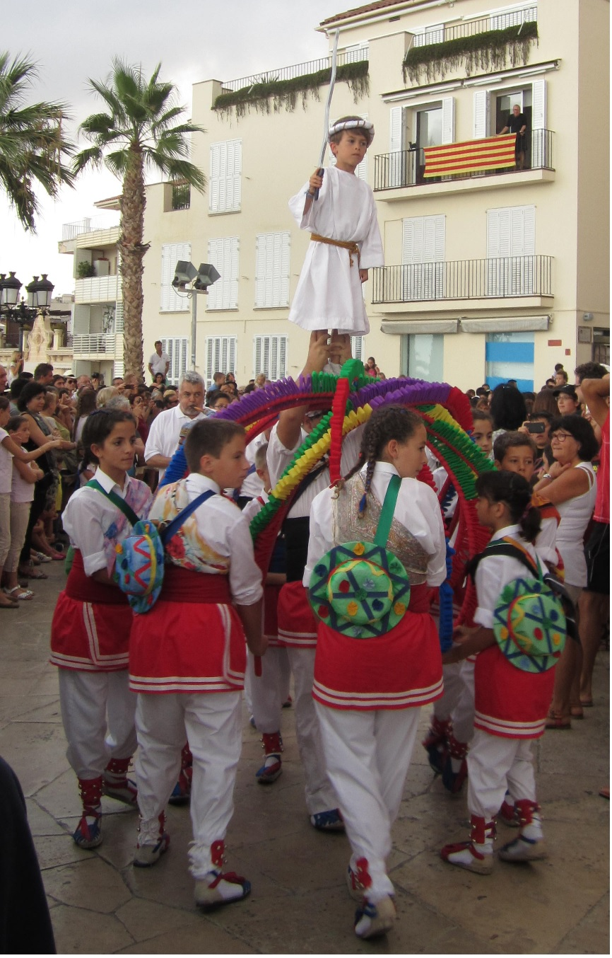 Dance of cercolets, Sitges, 24.8.2014